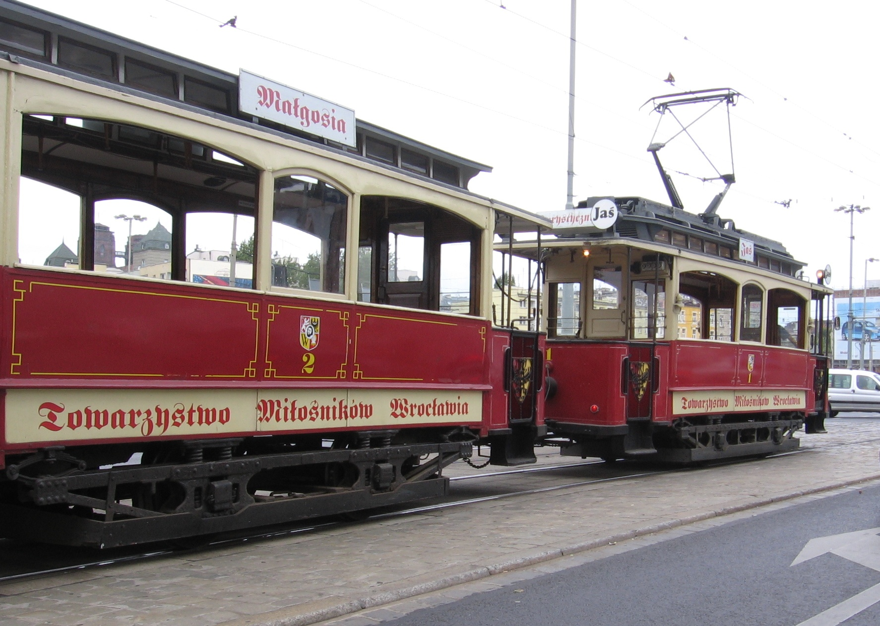 Historic trams in Wrocław (Poland), number 1 and 2, called Jaś i Małgosia (i.e. "Johnny and Maggie" or "Hansel and Gretel), adapted for touristic sightseeing, on the street of city Wrocław